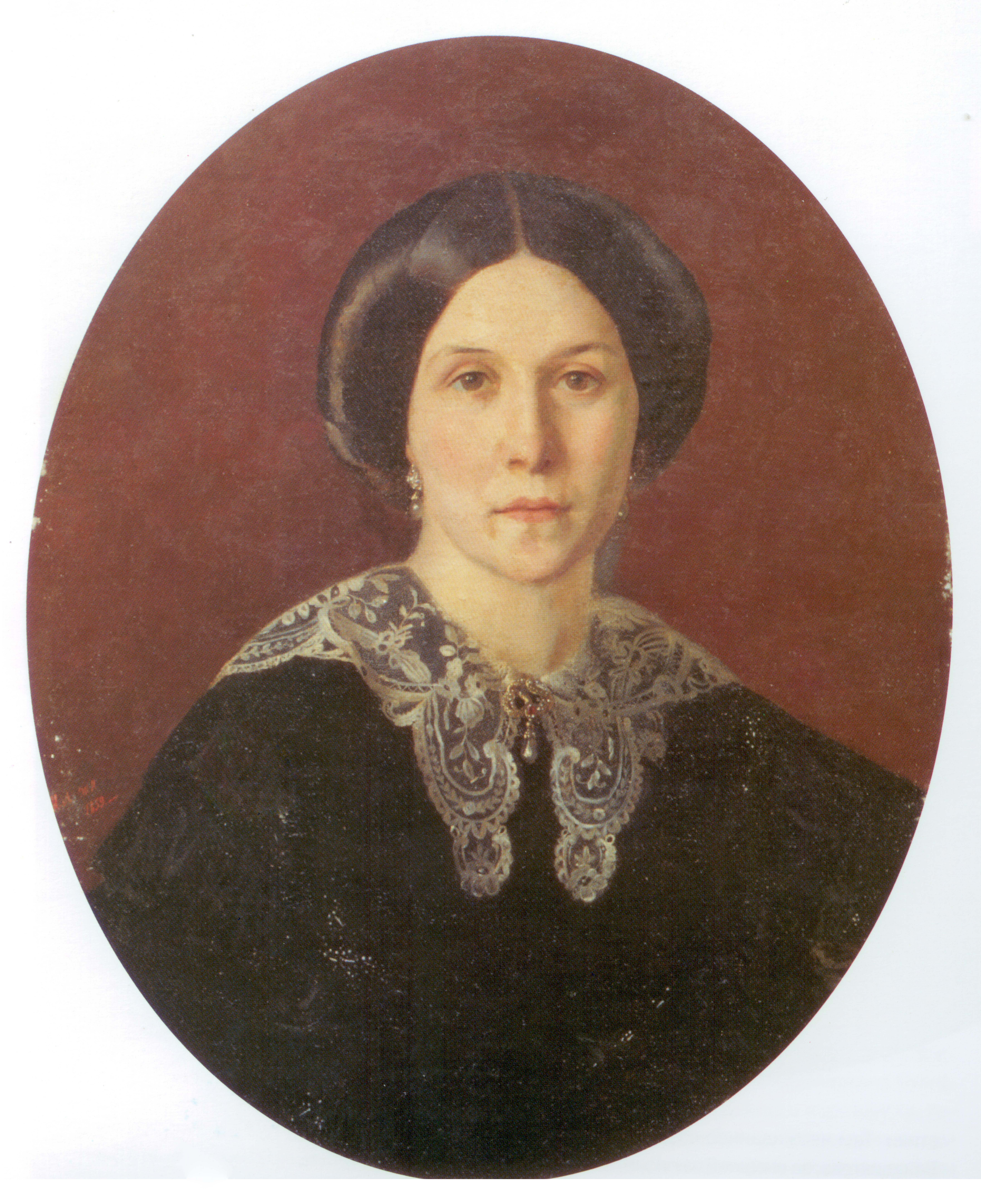 Portrait of Alexandra Bryullova